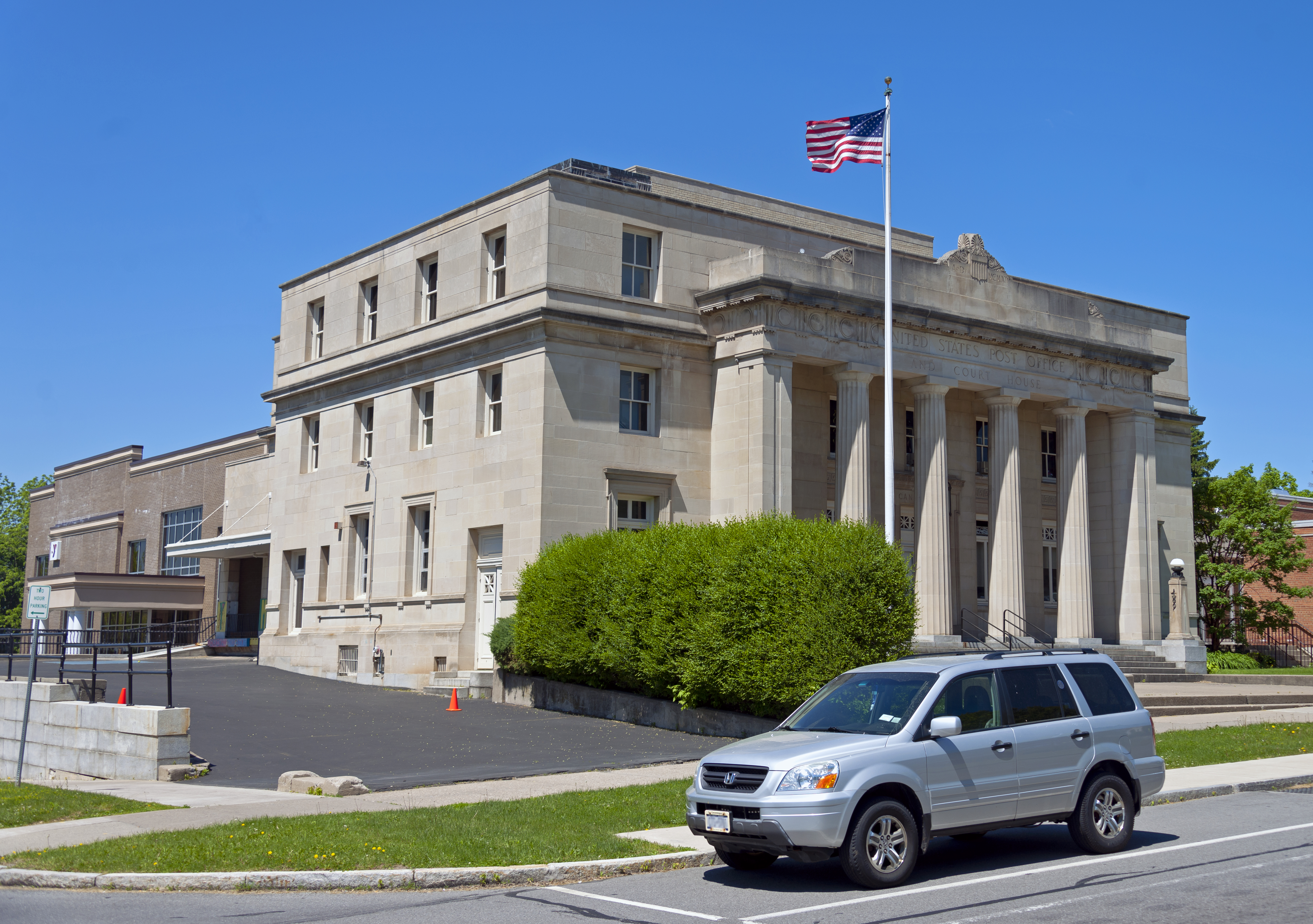 The former U.S. Post Office in Canandaigua, NY, a contributing property to the Canandaigua Historic Historic District. License plate on vehicle is blurred to protect owner privacy.